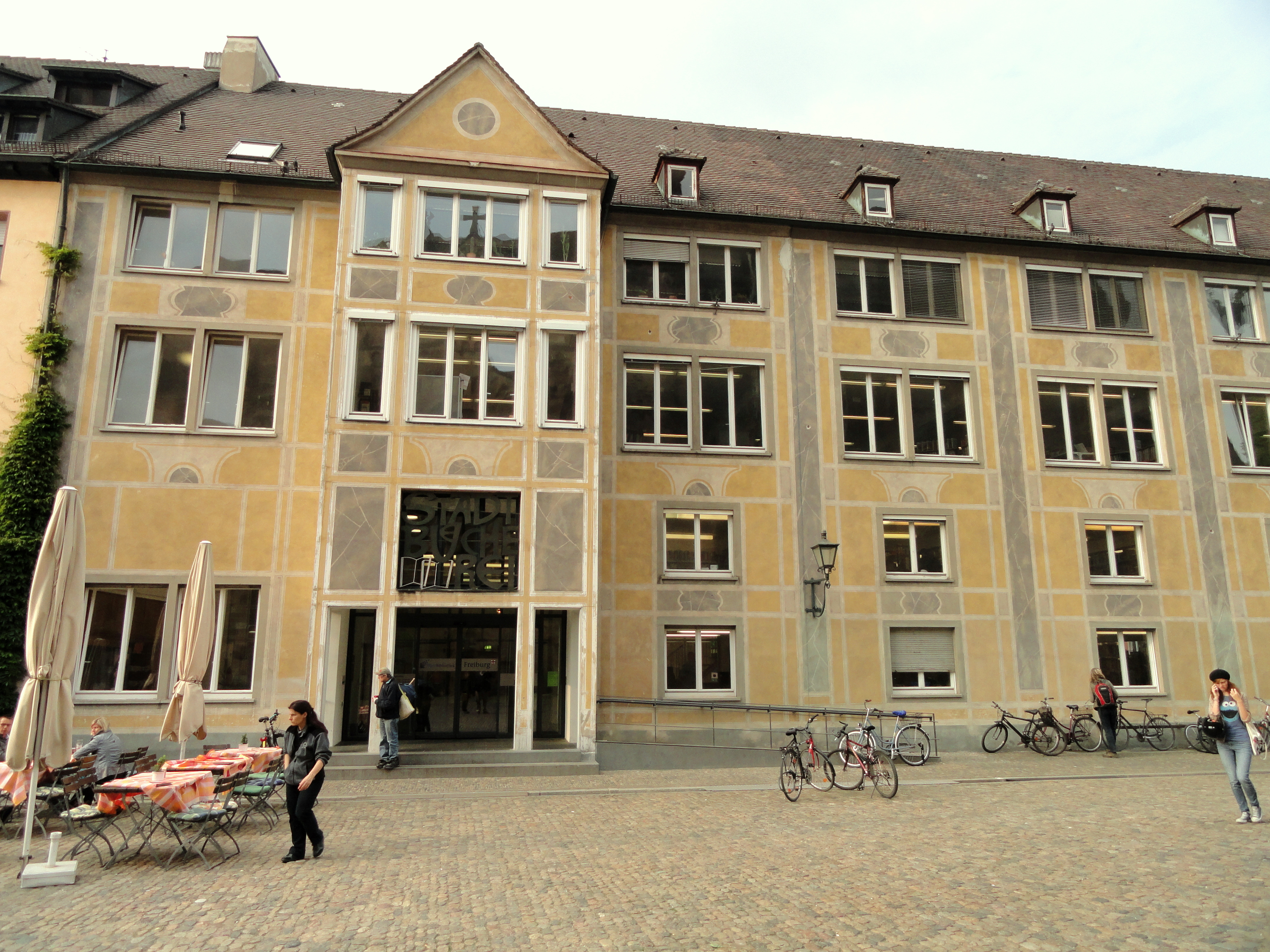 Stadtbibliothek, Freiburg im Breisgau, Baden-Württemberg, Germany.